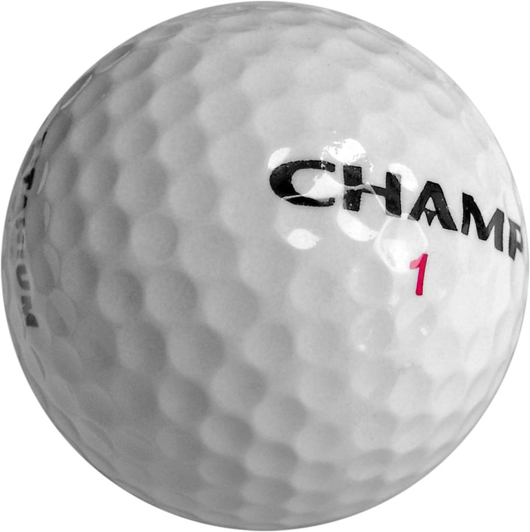 Golf ball.